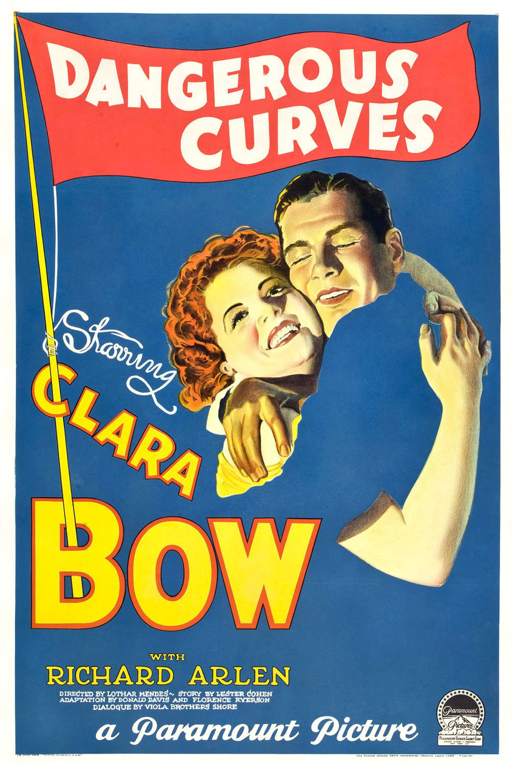 Poster from the 1929 film Dangerous Curves.